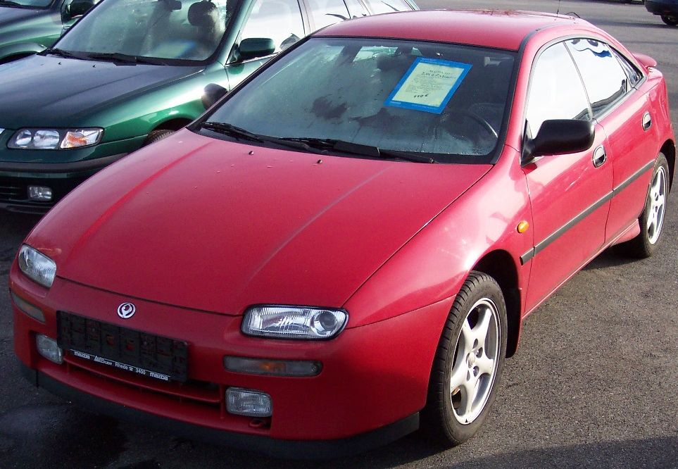 Mazda 323 F 2.0 V6 in Germany, second generation